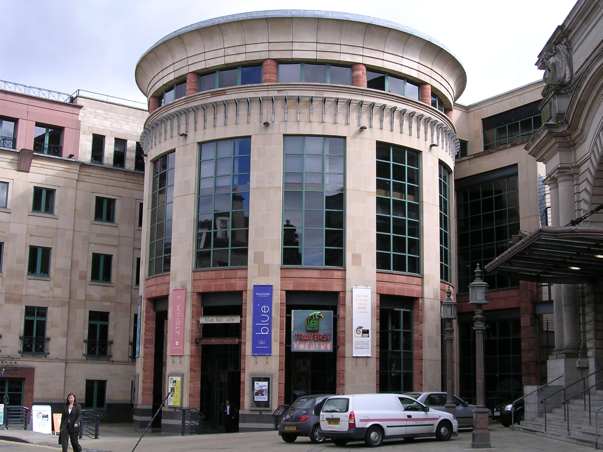 Traverse Theatre. Taken by myself. September 2004.